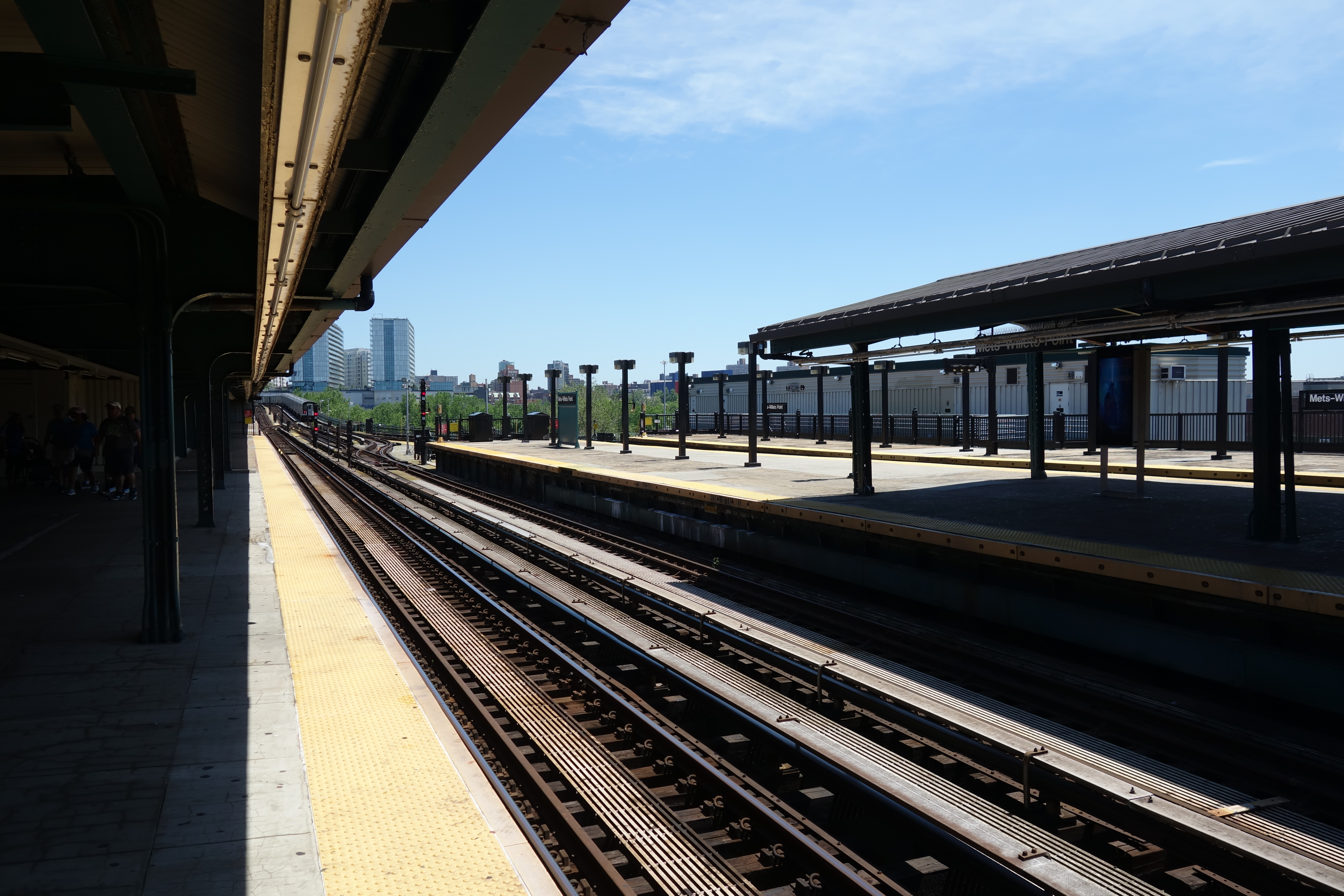 The Manhattan-bound local platform of the Mets – Willets Point subway station Willets Point / Flushing Meadows, Queens.